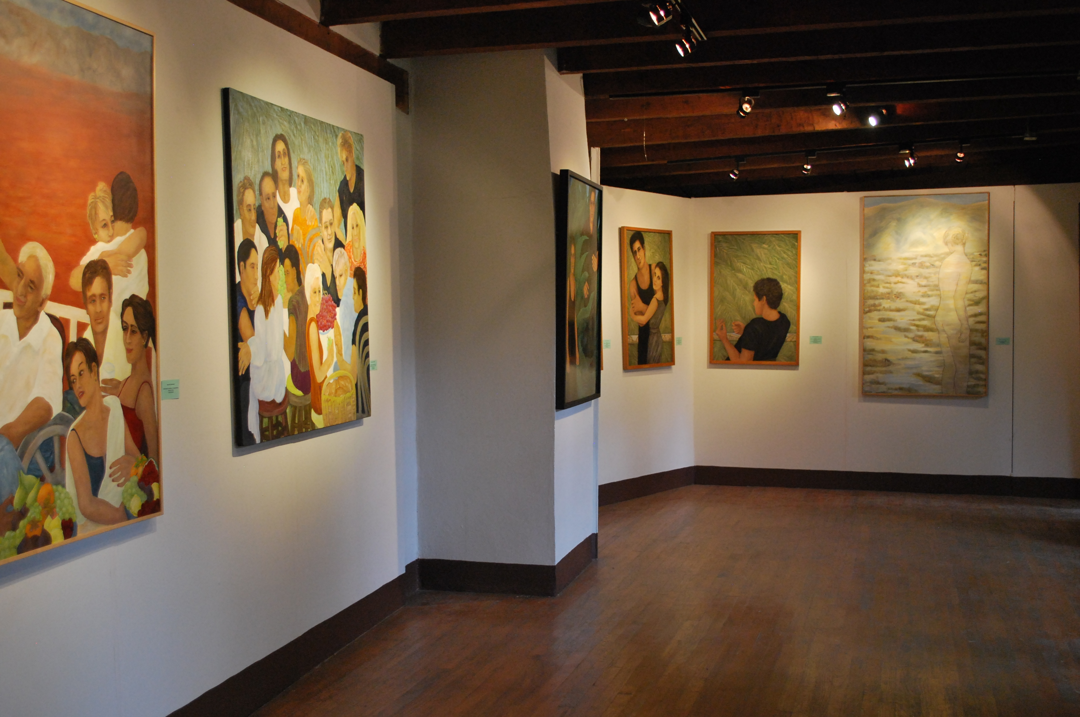 Oils by Helen Bickham at the Joaquin Arcadio Pagazo Museum in Valle de Bravo, Mexico